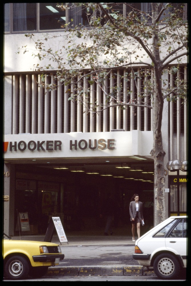 Photograph taken by Rennie Ellis of Hooker House Melbourne, between 1980 and 2000Permission granted by the Rennie Ellis Photographic Archive. Photograph sourced from the State Library of Victoria - Rennie Ellis Collection